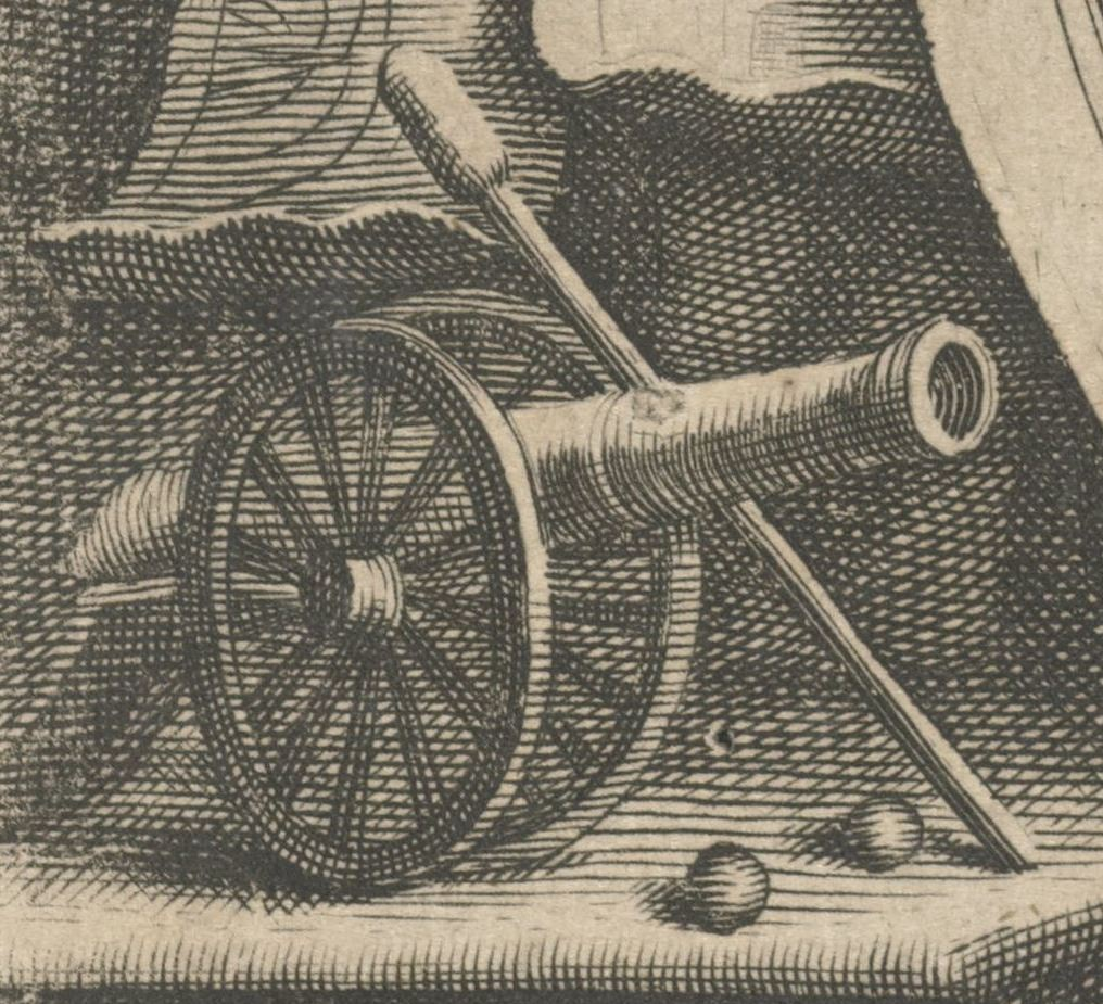 Portrait of Christian Martin Anhaltin. Title page of C.M. Anhaltin, Slot en sleutel van de groote zee-vaert met een uytschrijvinge van Oost en West, inde voorreeden. Amsterdam: H. Doncker/Herman Aeltsz., 1659. Rijksmuseum Amsterdam RP-P-OB-60.199. Engraving h 222 mm × b 169 mm. Depiction of Petrus Plancius with students at the bottom?